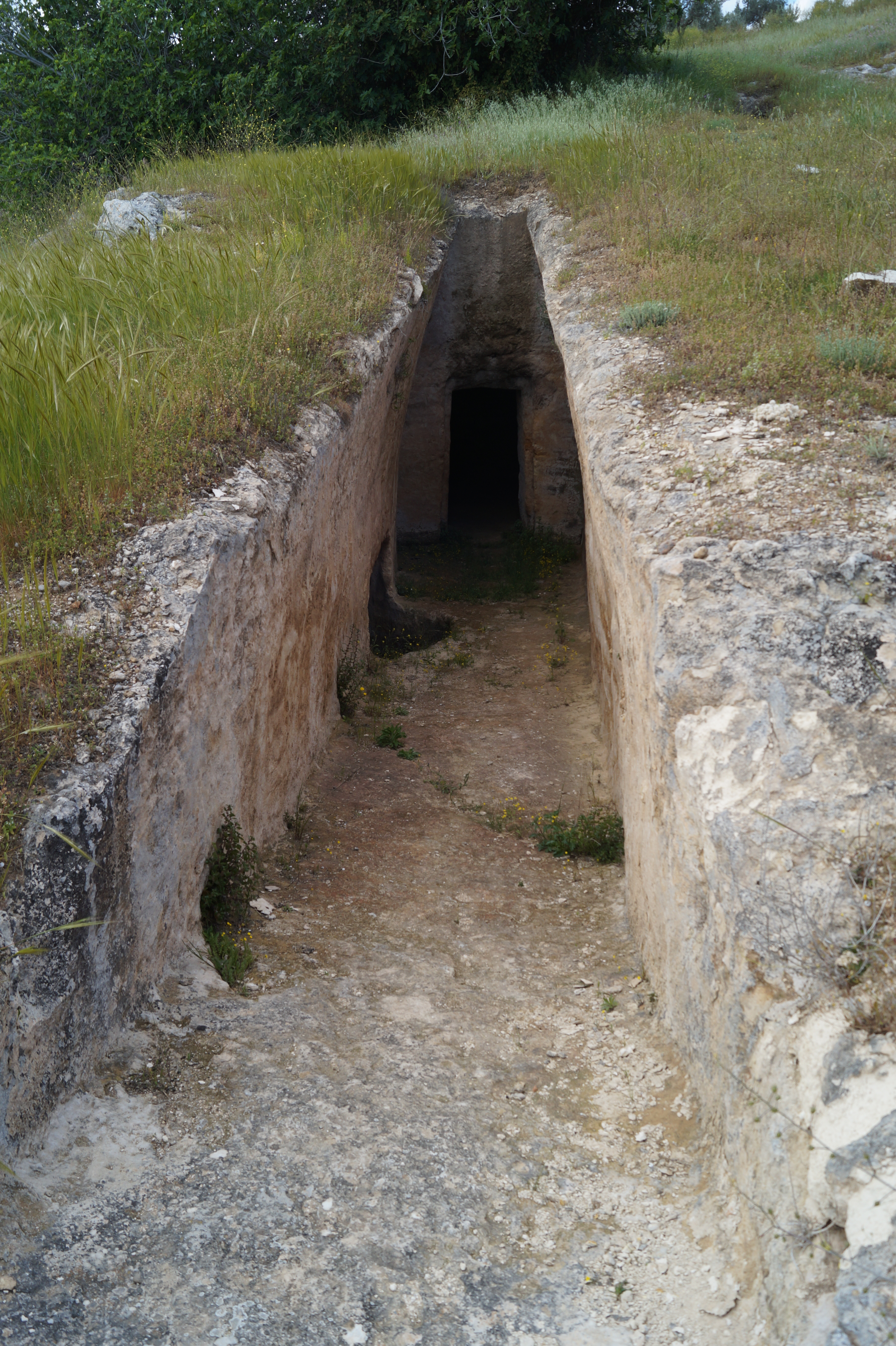 Aidonia, Corinthia, Greece: Mycenaean cemetery of Aidonia, dromos of tomb 9. On the left there is a breakthrough to the burial chamber of tomb 10.